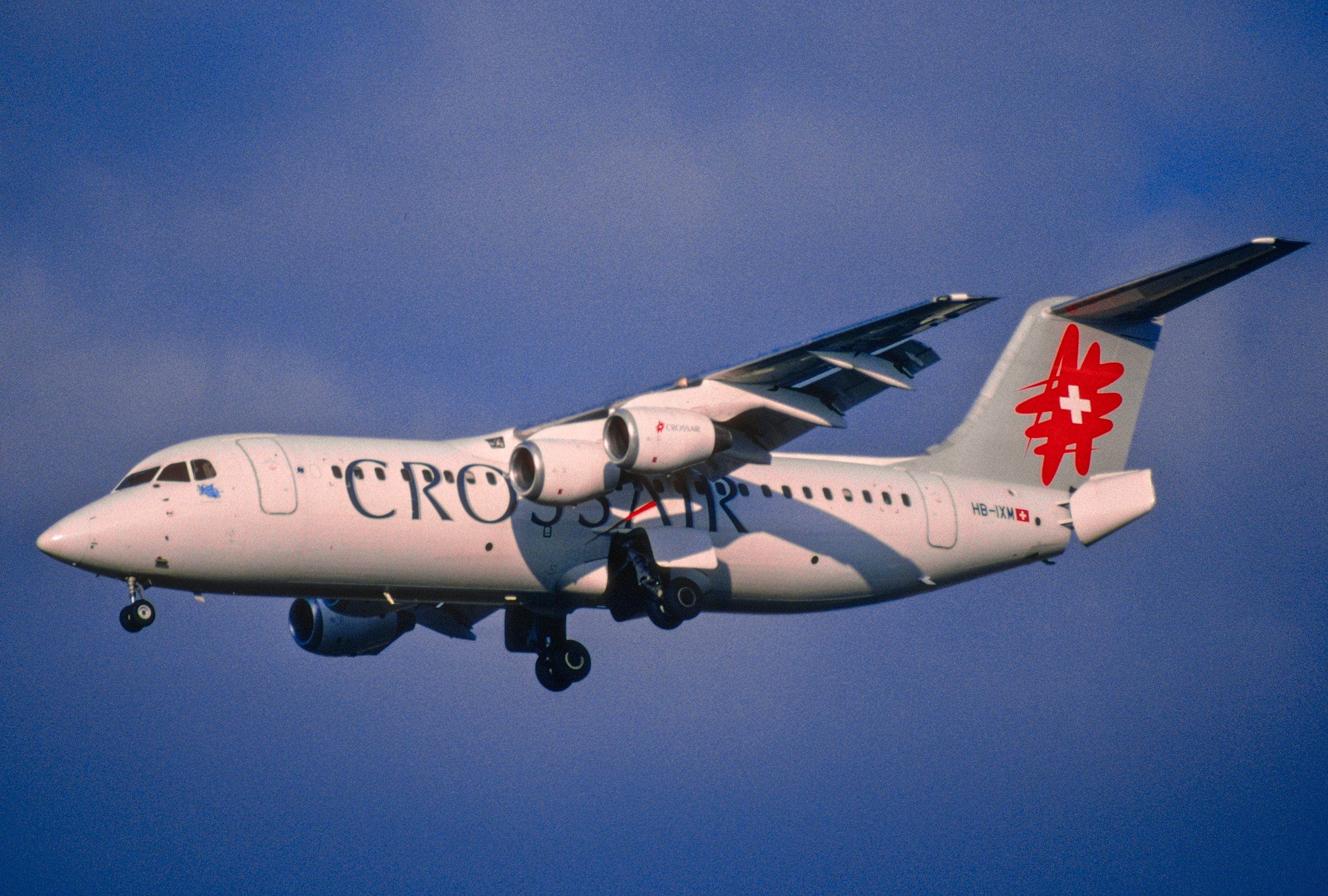 This Jumbolino crashed on November 24, 2001 on flight LX3597 from Berlin-Tegel whilst on approach to runway 28 of Zürich-Kloten airport. 24 of 33 people on board died in this accident. The reason for the crash was a navigational error of the pilots...